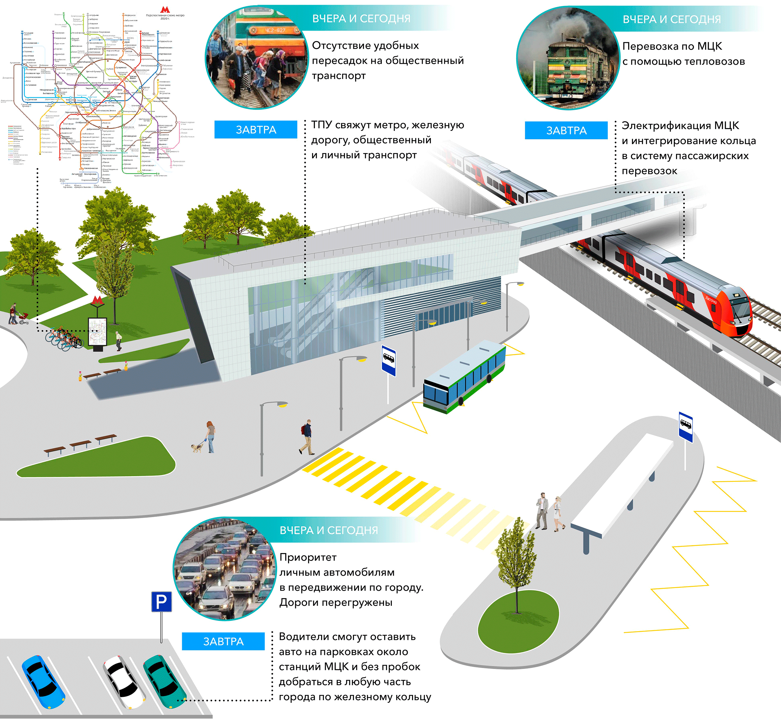 Пример Транспортно-пересадочного узла на МЦК